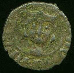 Hetum II